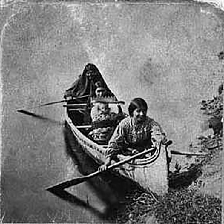 Ojibwa women in their canoe on the Saint Louis River